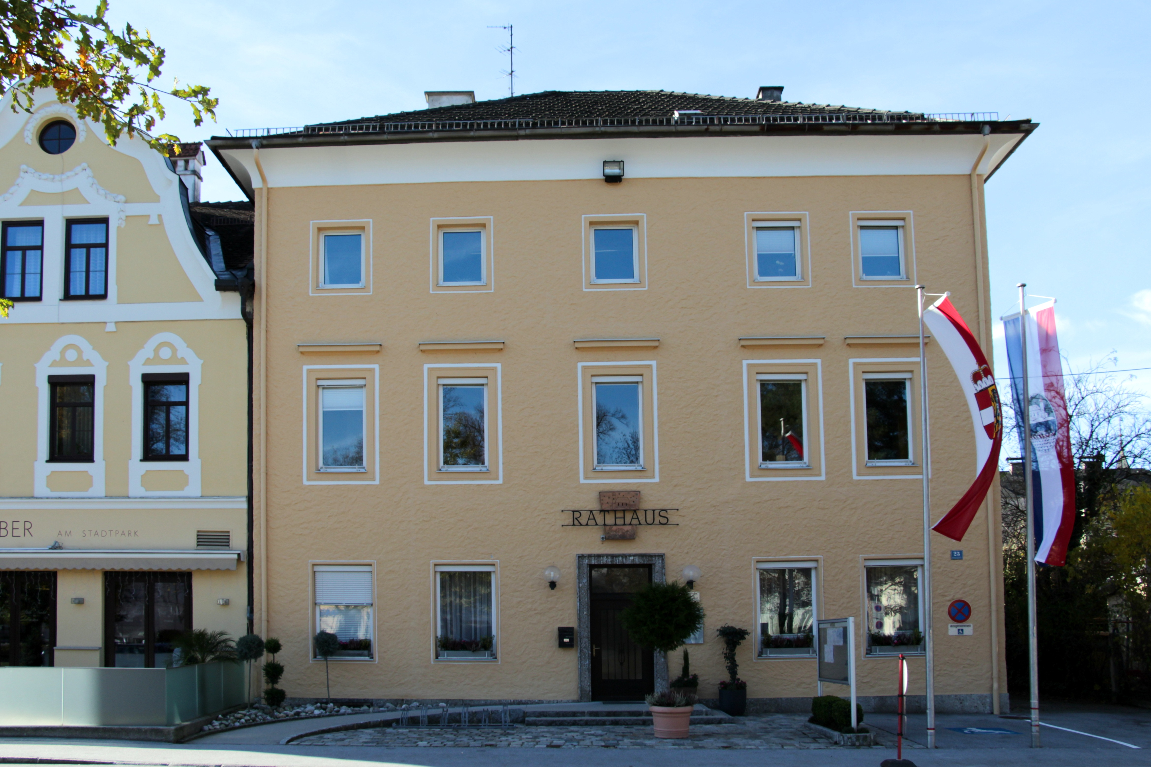 Oberndorf town hall, state of Salzburg, Austria till septembre 2018